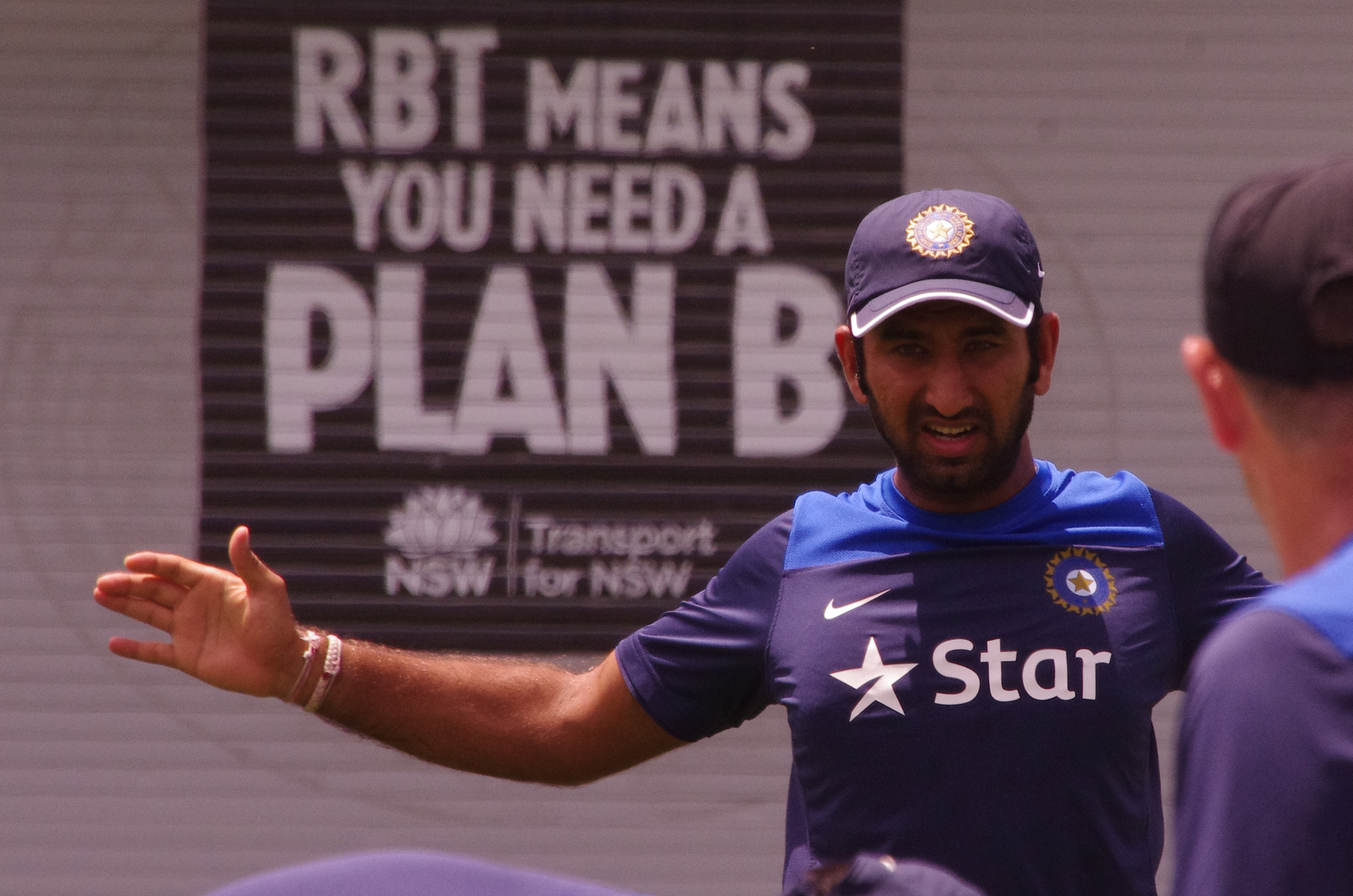 CHETESHWAR PUJARA